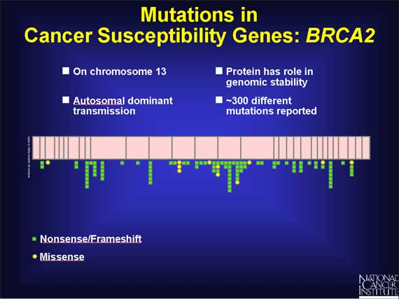 types of mutations on BRCA2